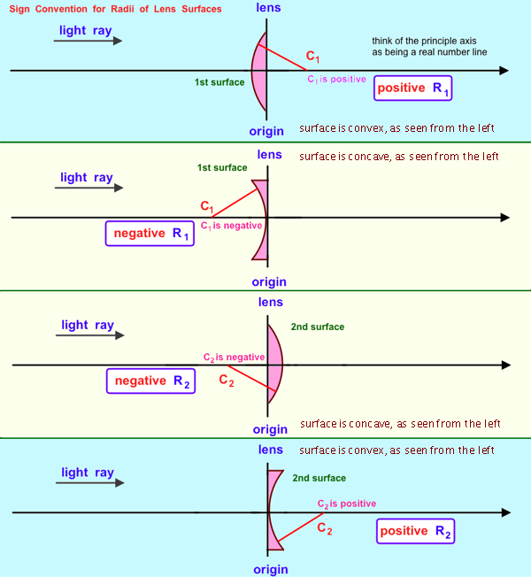 Figure illustrates use of positive & negative curvatures for the surfaces of a lens. Think of the principle axis as being a real number line, with the mid-plane marking the origin of the axis. Light rays travel in the positive direction. IF the center of curvature – for either surface – lies in the negative region, then the curvature is negative, R 0.